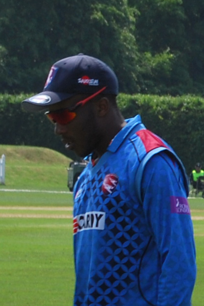 Daniel Bell-Drummond of Kent County Cricket Club fielding at Kent County Cricket Ground, Beckenham - June 2016